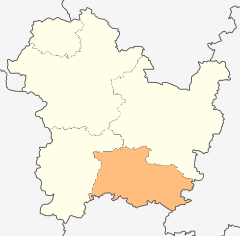 Map of Omurtag municipality, Targovishte Province